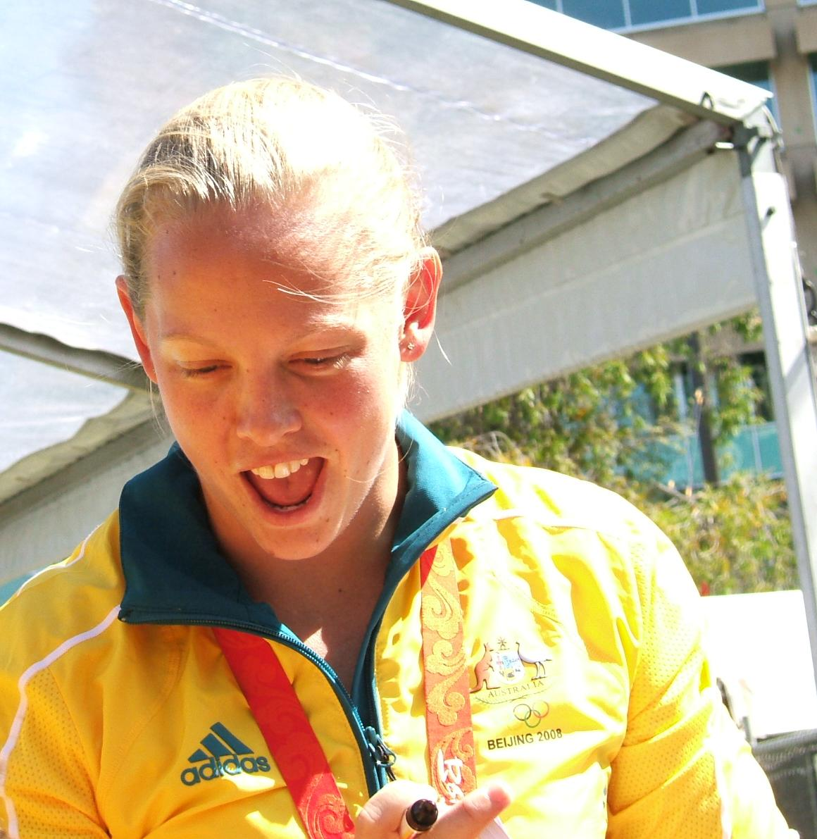 Kate Gynther at the 2008 Olympic welcome home parade in Adelaide